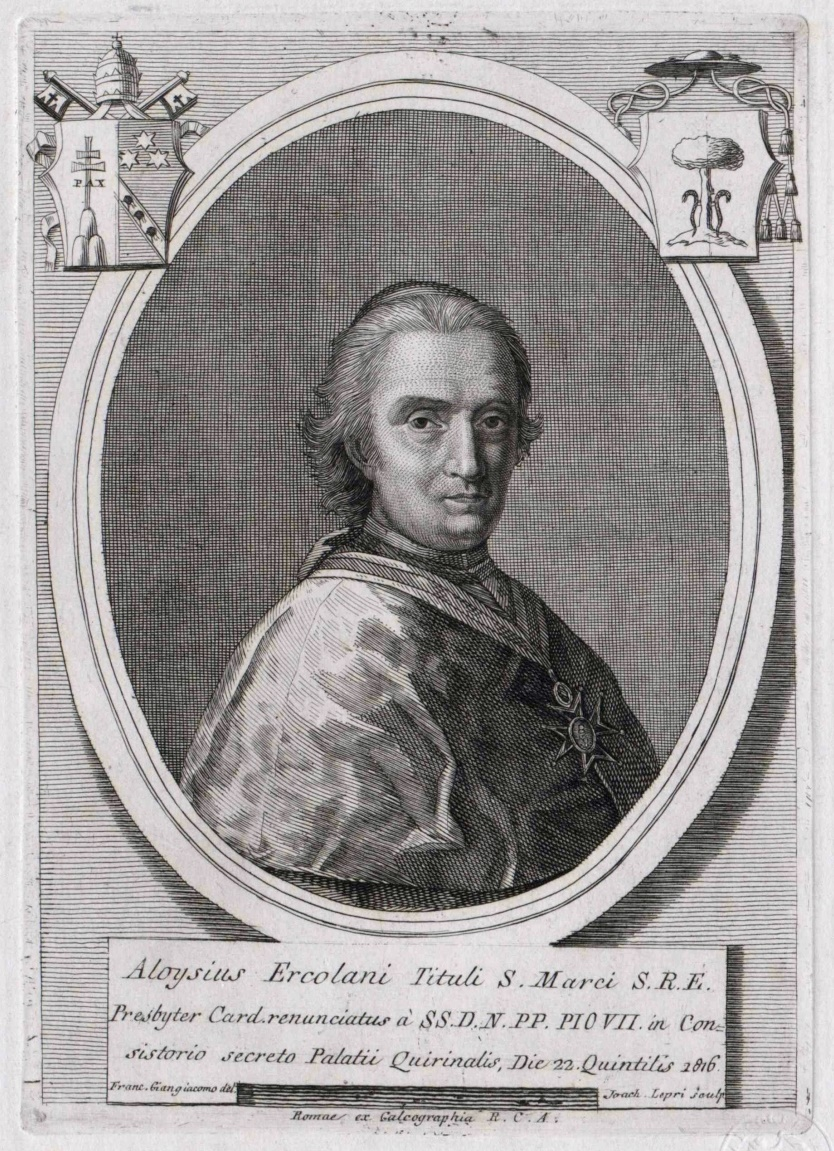 Kardinal Luigi Ercolani (1758-1825)